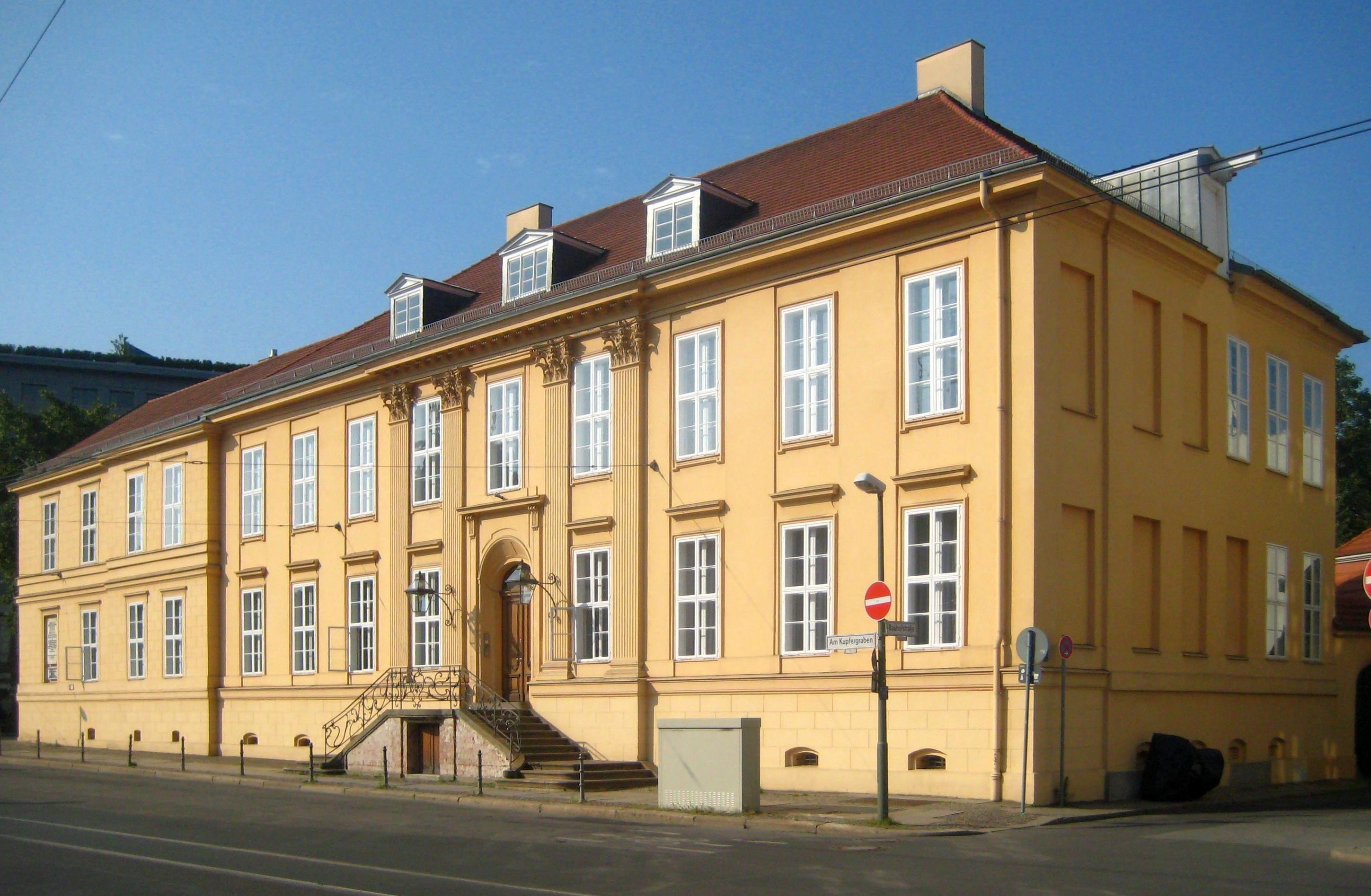 The Magnushaus on the street Am Kupfergraben in Berlin-Mitte. The town house was built to a design by Georg Friedrich Boumann Jr. for Privy Counsillor Johann Friedrich Westphal. Construction was completed in 1756. The left part of the front building was added in 1761 and received a second story and a classicist facade in 1822. In 1840, physicist Heinrich Gustav Magnus bought the house and furnished it with a laboratory, a lecture room and his private collection of physical instruments. The building was only slightly damaged in WWII and served as seat of the German-Soviet Friedship Society after the war. Starting in 1958, the Physical Society of the GDR resided here. The house is now seat of the German Physical Society. It has been designated a historic landmark.